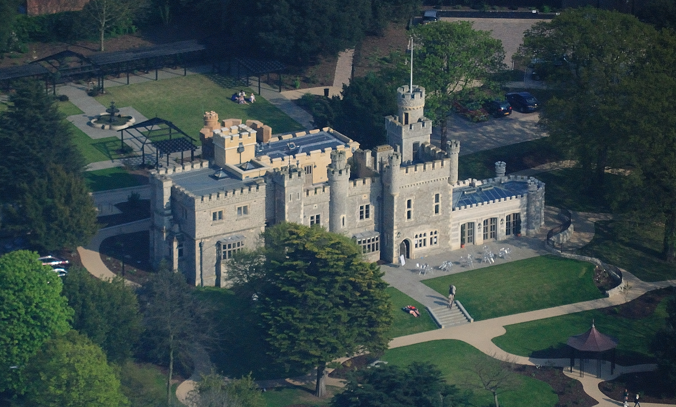 Aerial view of the castle at Whitstable (Kent, England). Nikon D60 f=200mm f/7.1 at 1/3200s ISO 800. Processed using Nikon ViewNX 1.5.2 and GIMP 2.6.6.